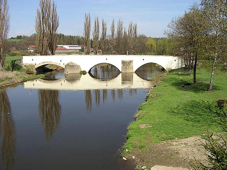 Author: Luděk Pitter